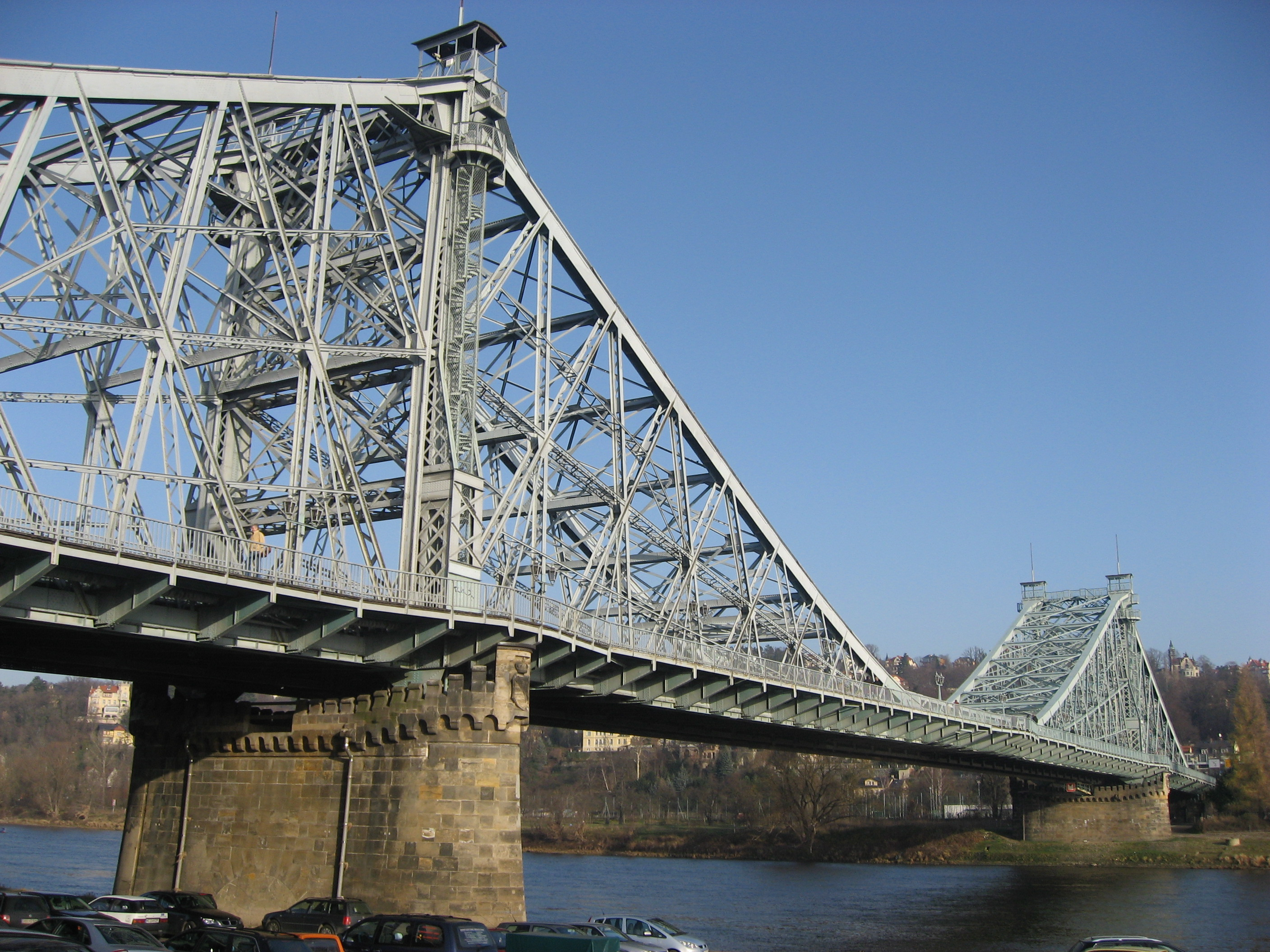 Elbe bridge Blue Wonder in Dresden in 2006